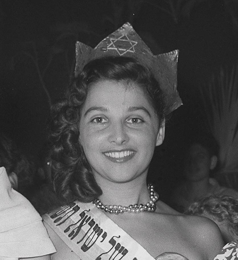 Miss Israel 1950 and her runner-ups